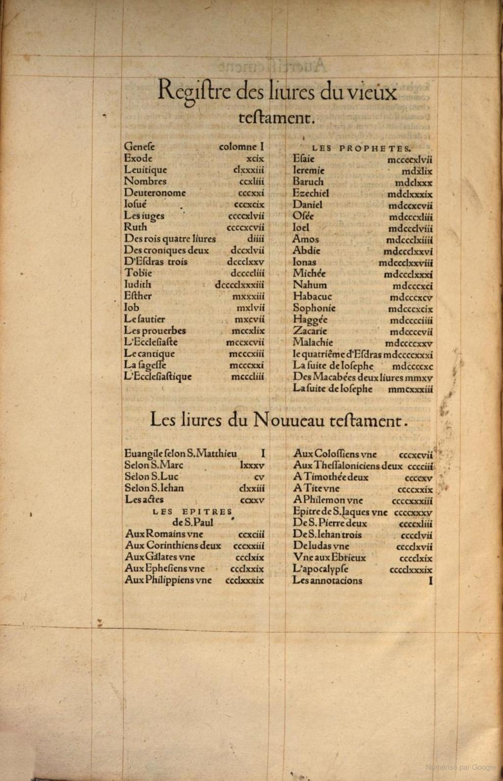 Bible de Castellion, 1555 (French) - Table of content